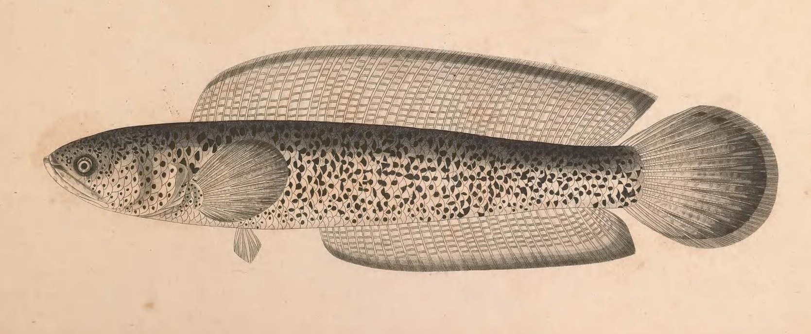 ophiocephalus